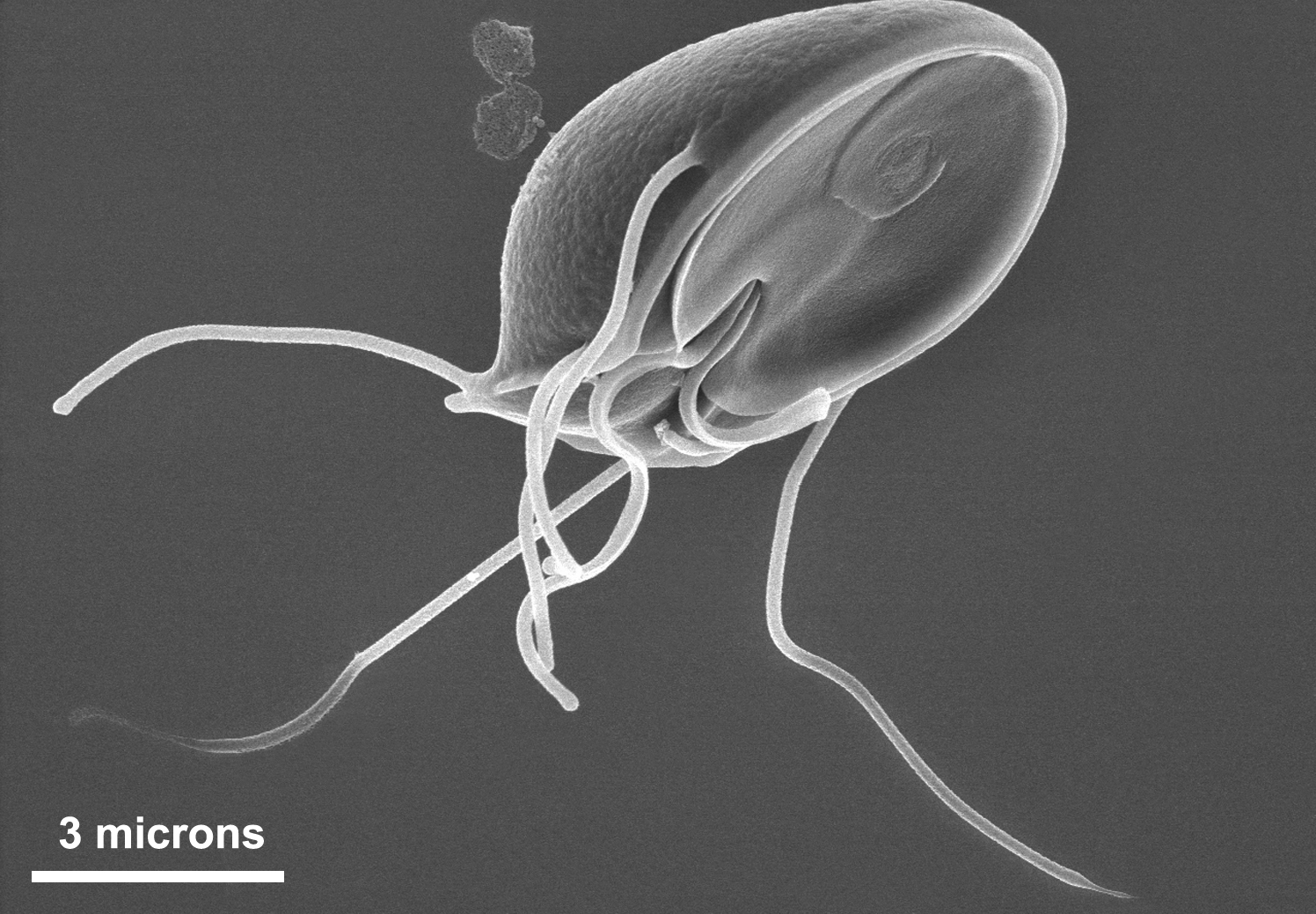 This scanning electron micrograph (SEM) clearly showed the ventral surface of a Giardia muris trophozoite. The ventral adhesive disk resembles a suction cup, where overlapping microtubules in the cytoplasm form a number-6-shaped figure. Giardia muris has four pairs of flagella that are responsible for the organism’s motility. The adhesive disk facilitates adherence of the protozoan to the intestinal surface. The protozoan Giardia causes the diarrheal disease called giardiasis. Giardia species exist as free-swimming (by means of flagella) trophozoites, and as egg-shaped cysts. It is the cystic stage, which facilitates the survival of these organisms under harsh environmental conditions. The cyst is considered the infective form, and disease is often transmitted by drinking contaminated water. As depicted in these SEMs, in the intestine, cysts are stimulated to liberate trophozoites. Cysts can be shed in fecal material, and can, thereafter, remain viable for several months in appropriate environmental conditions. Cysts can also be transferred directly from person-to-person, as a result of poor hygiene.